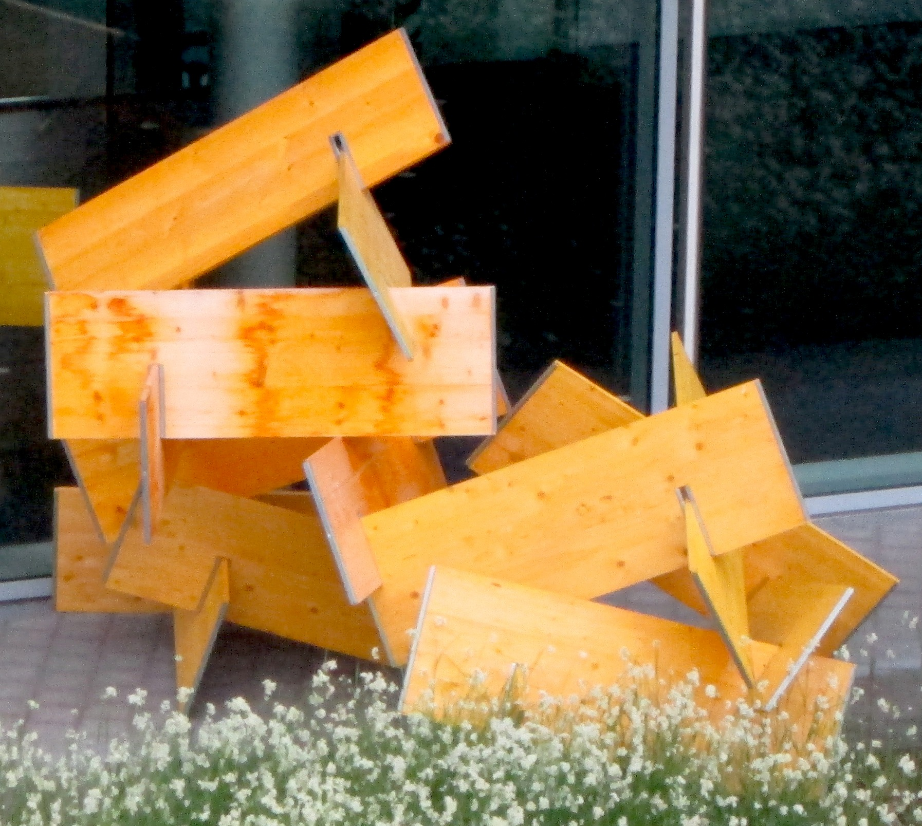 Art object made of concrete formwork panels, on the rear side of SparkassenVersicherung headquarters in Stuttgart, seen from Sparrhärmlingweg.